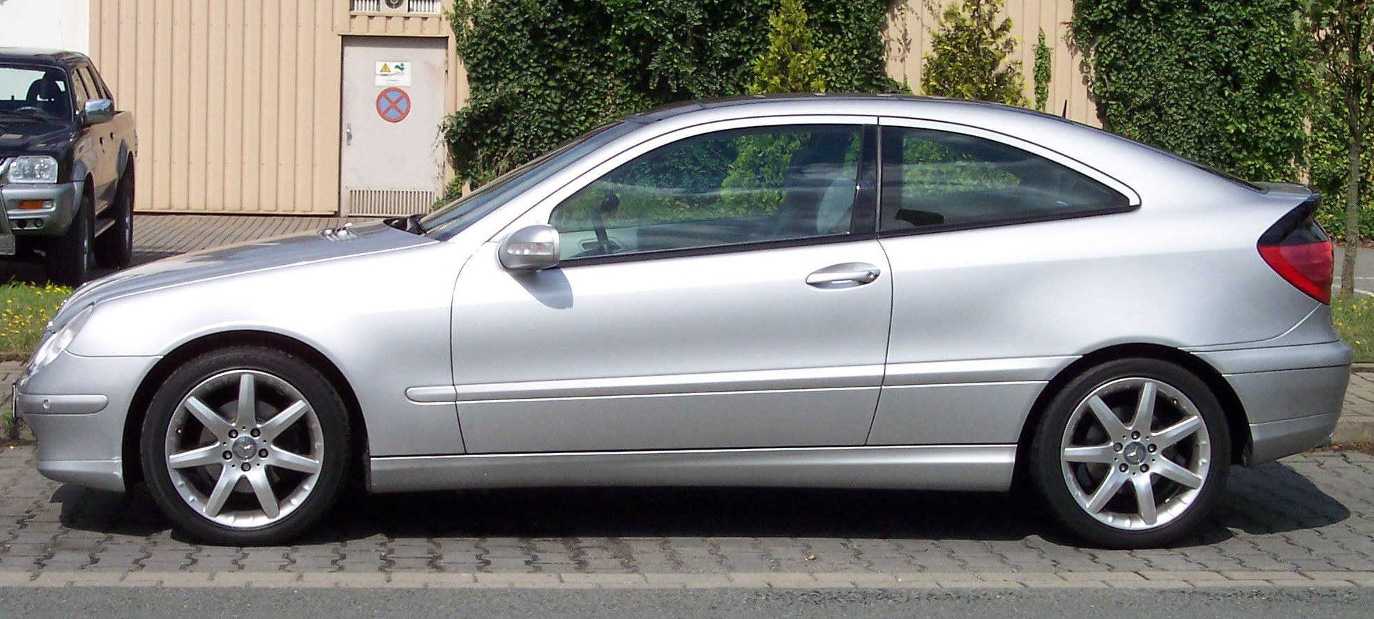 Mercedes Coupe